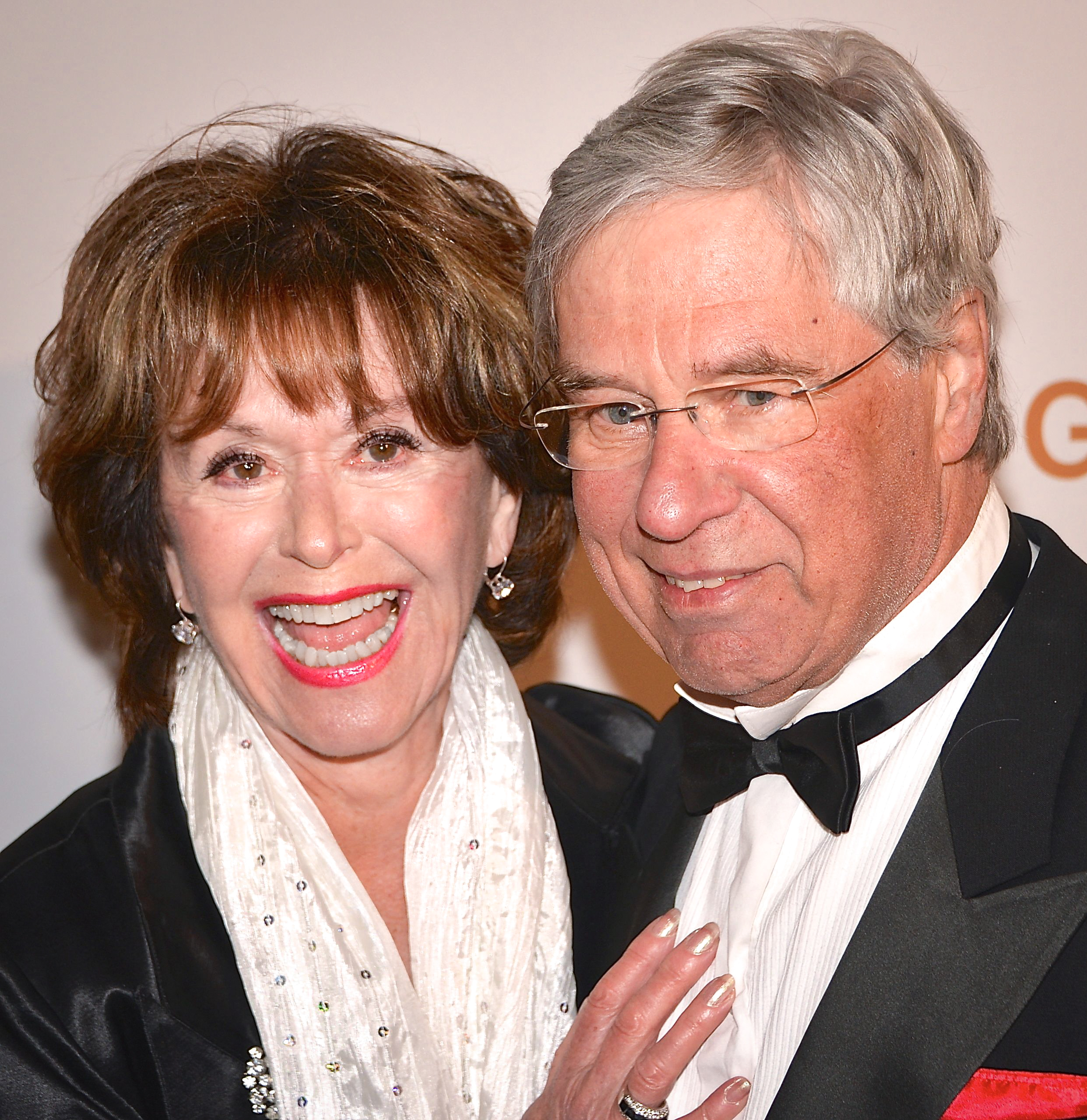 Lena Söderblom och Leif Zetterling on Guldbaggegalan January 21, 2013 at Cirkus in Stockholm.